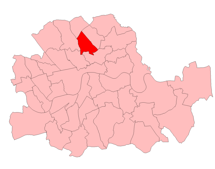 A map of Islington South West constituency within the London County Council area, as it existed from 1950 to 1974.